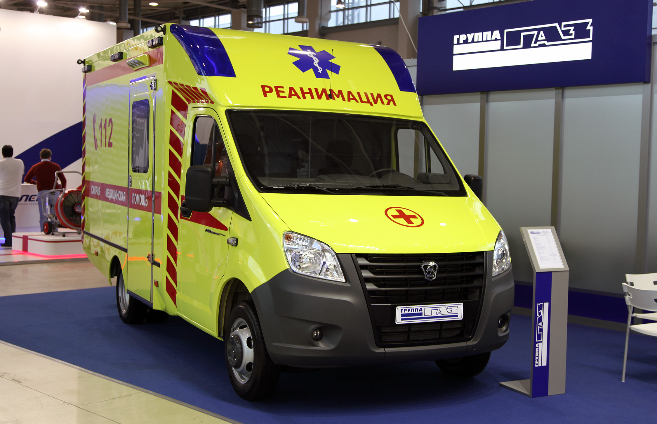 Ambulance vehicle on GAZel NEXT base